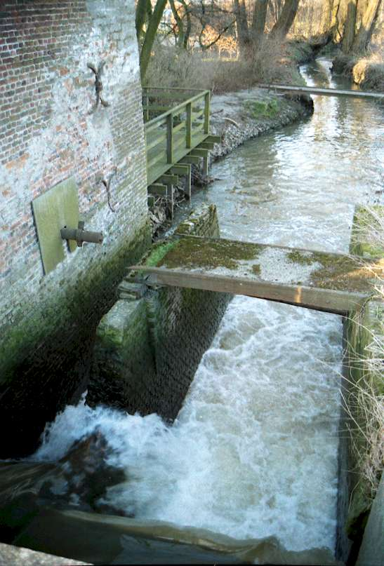 Watermill Diepensteyn, Londerzeel, Belgium